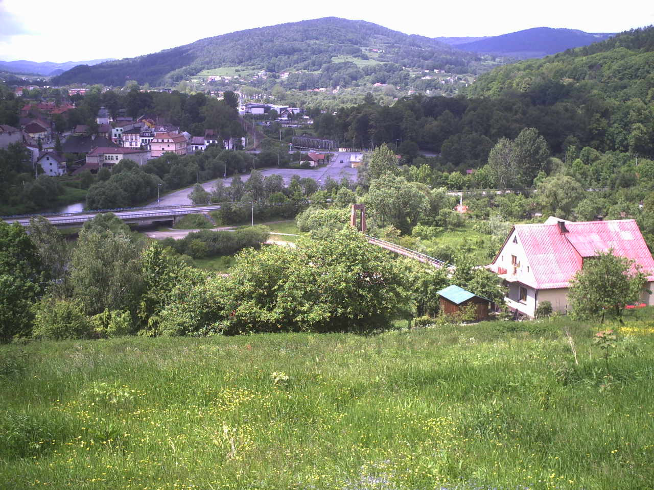 Sucha b. from Mioduszyna hill towards West